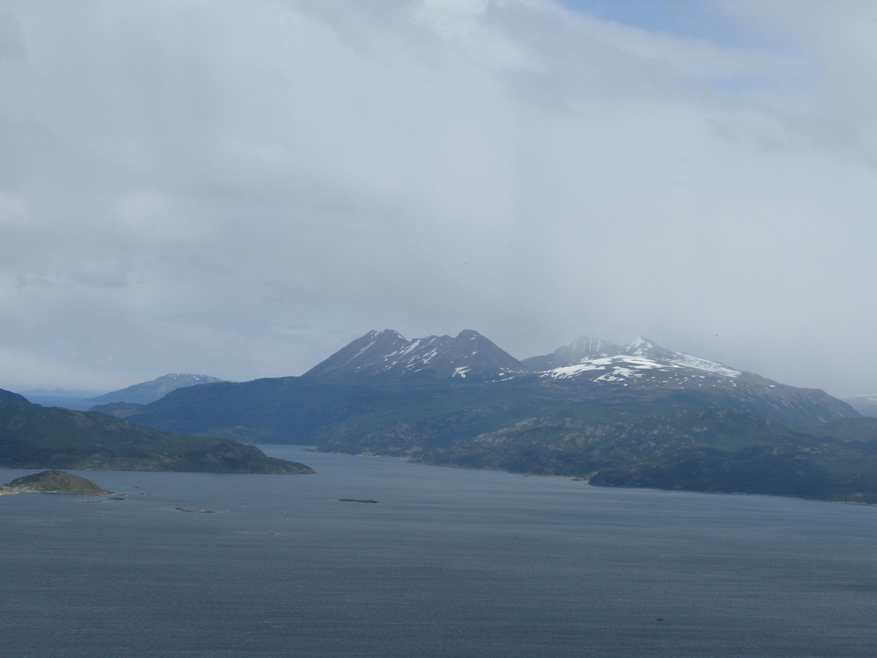 Murray Channel, Tierra del Fuego, Chile